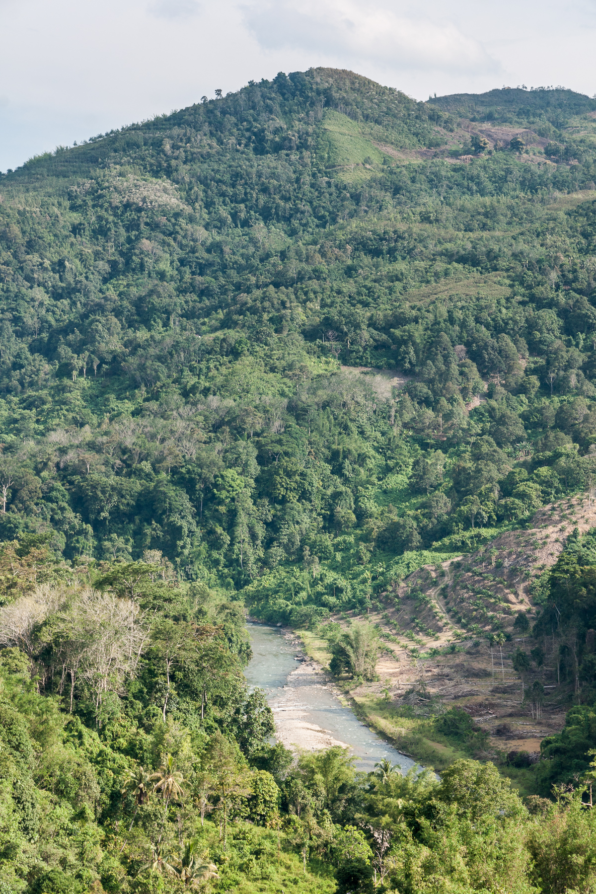 Rivers of Sabah, Malaysia: Sungai Liwagu; View from Last POW Camp Memorial. Downhill (not visible) is the junction of Sungai Kenipir to Sungai Liwagu